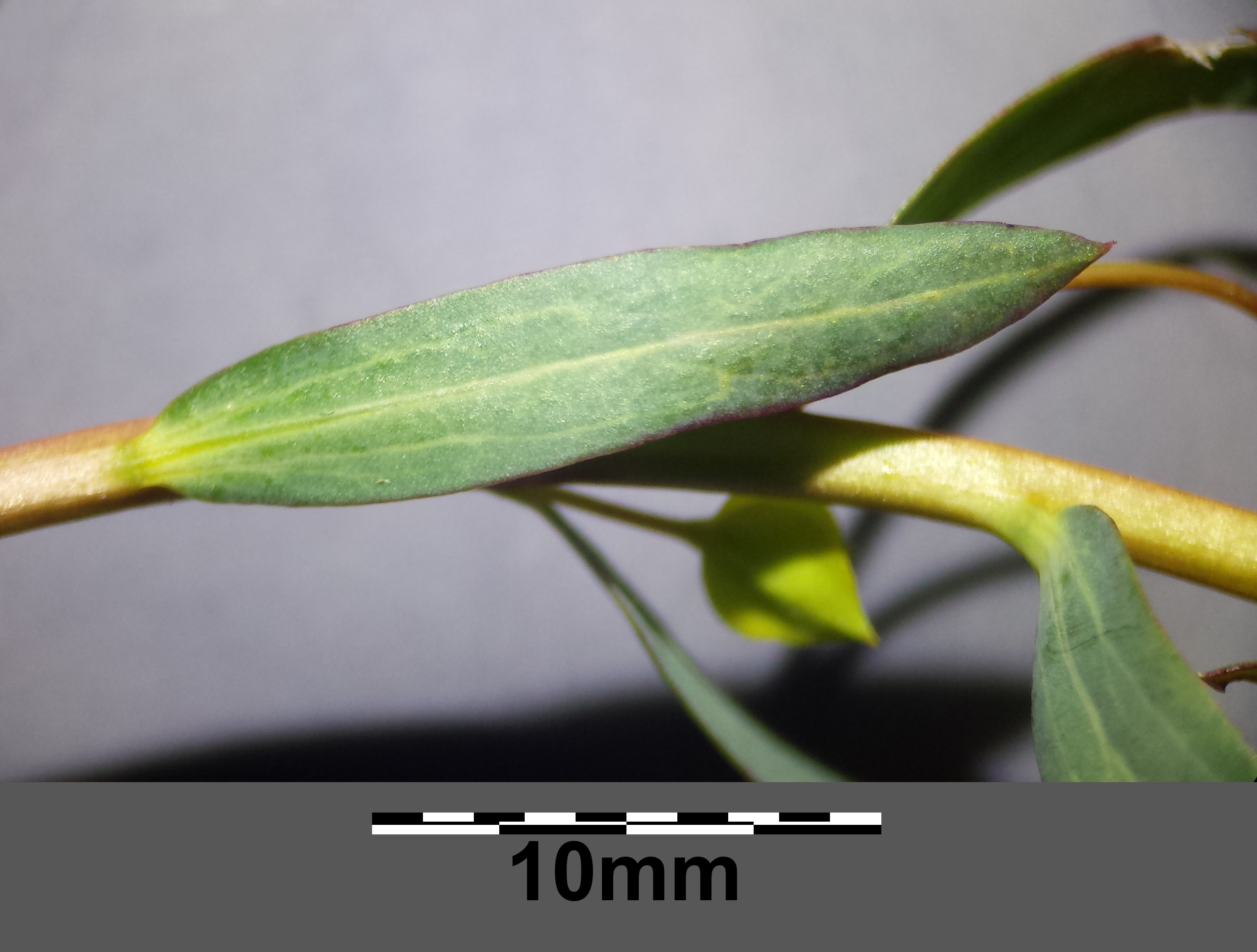 Stem with leaves Taxonym: Euphorbia seguieriana ss Fischer et al. EfÖLS 2008 ISBN 978-3-85474-187-9 Location: semi-dry grasslands and wine yards to the north of Oberthern, municipality Heldenberg, district Hollabrunn, Lower Austria - ca. 300 m ü. A. Habitat: slope